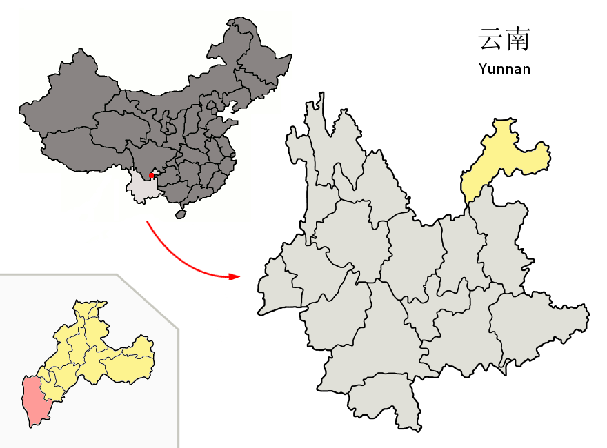 Location of Qiaojia County (pink) and Zhaotong Prefecture (yellow) within Yunnan province of China Map drawn in september 2007 using various sources, mainly : Yunnan province administrative regions GIS data: 1:1M, County level, 1990 Yunnan Counties map from Zhaotong Prefecture administrative map from .au